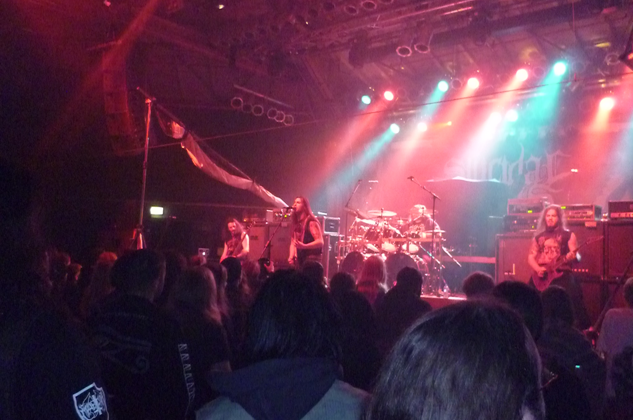 Suicidal Angels live at the Garage Saarbrücken